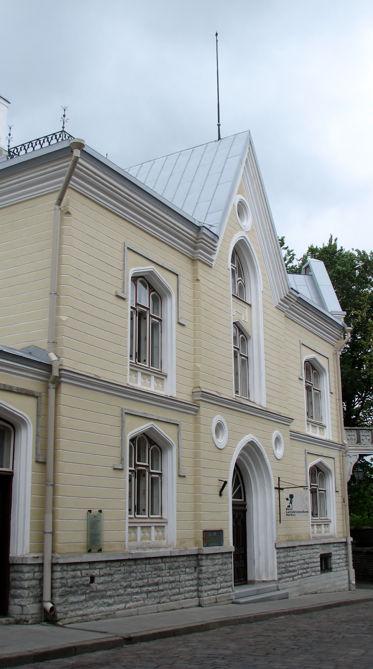 Estonian Children's Literature Centre at 73 Pikk Street, Tallinn